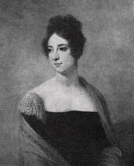 Charlotte Skjöldebrand (1791-1866), Swedish countess and courtier